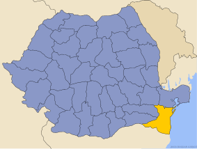 Location of Constanța County in Romania.